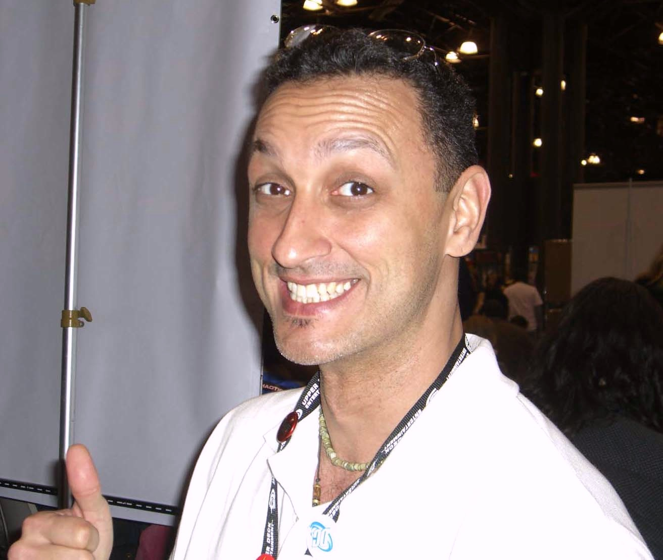 Comics artist Rags Morales at the New York Comic Con, April 20, 2008. This photo was created by Luigi Novi. It is not in the public domain, and use of this file outside of the licensing terms is a copyright violation.